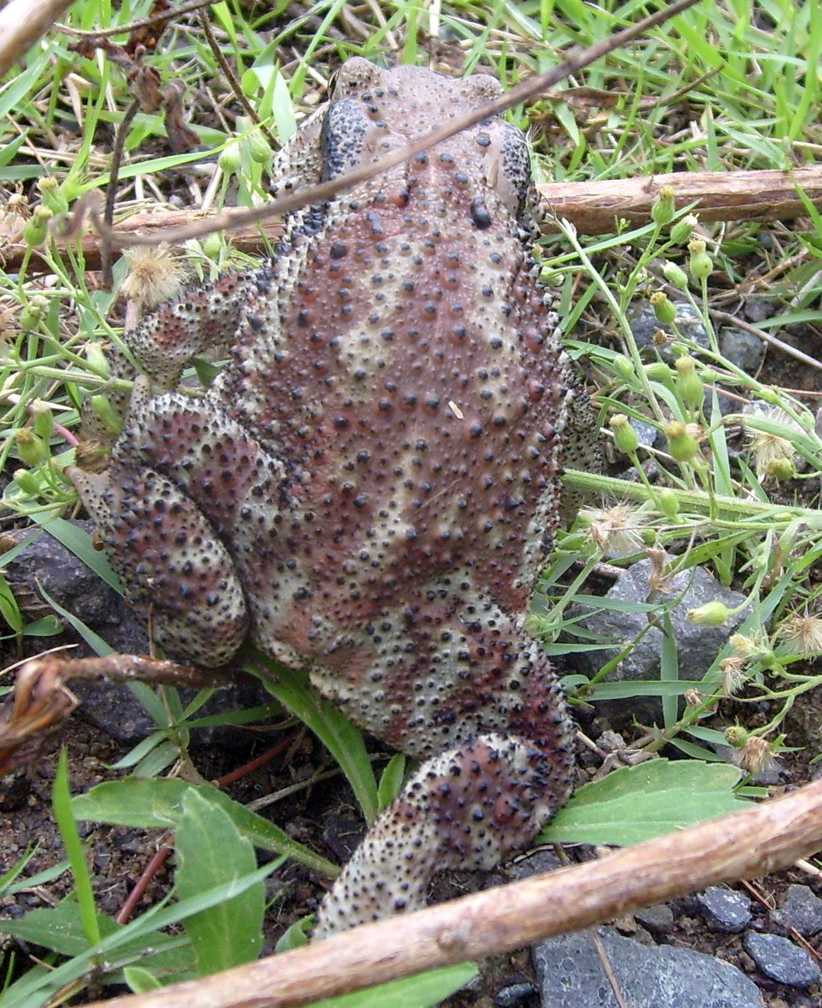 Adult Bufo gargarizans, the Asiatic toad, walking through grass on hillside in Miryang, South Korea. - Google Maps - Google Earth